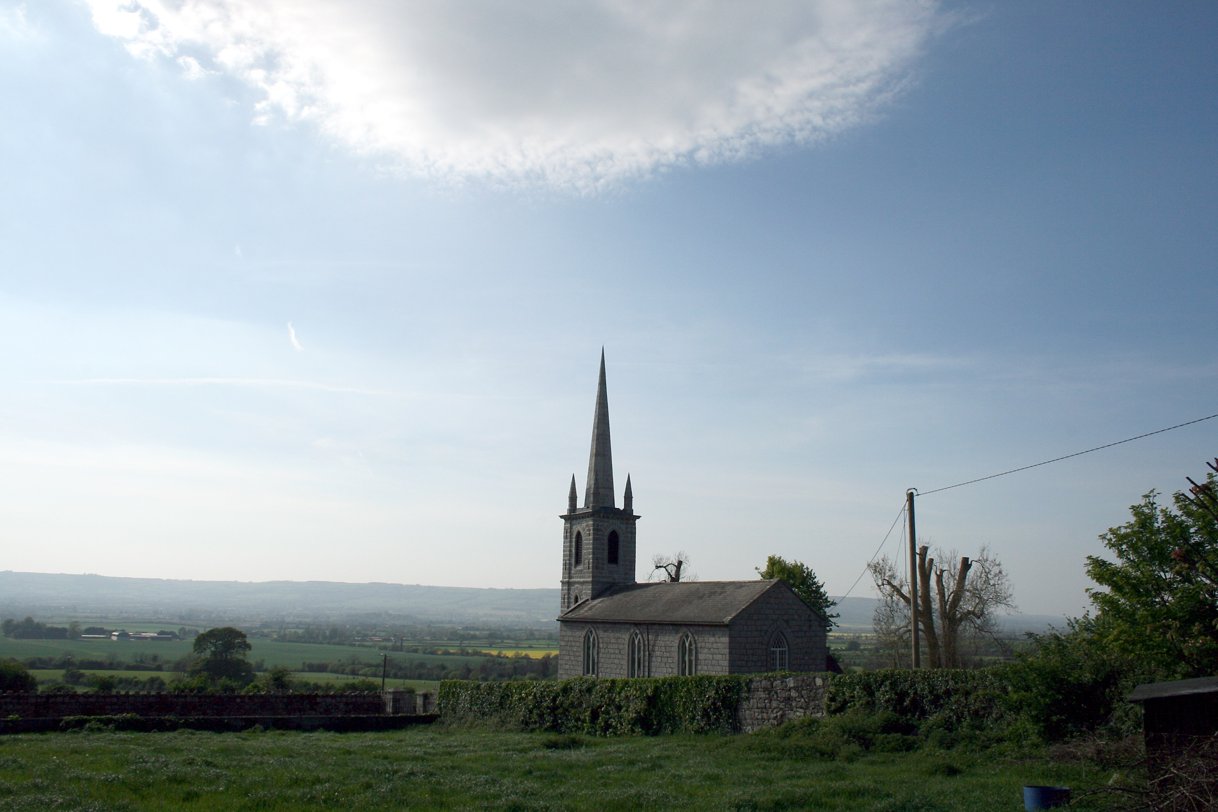 Nurney, County Carlow, near to Nurney, Ballyrvan, The Harrow and Hooper's Cross Roads, Carlow, Ireland. St John's Church